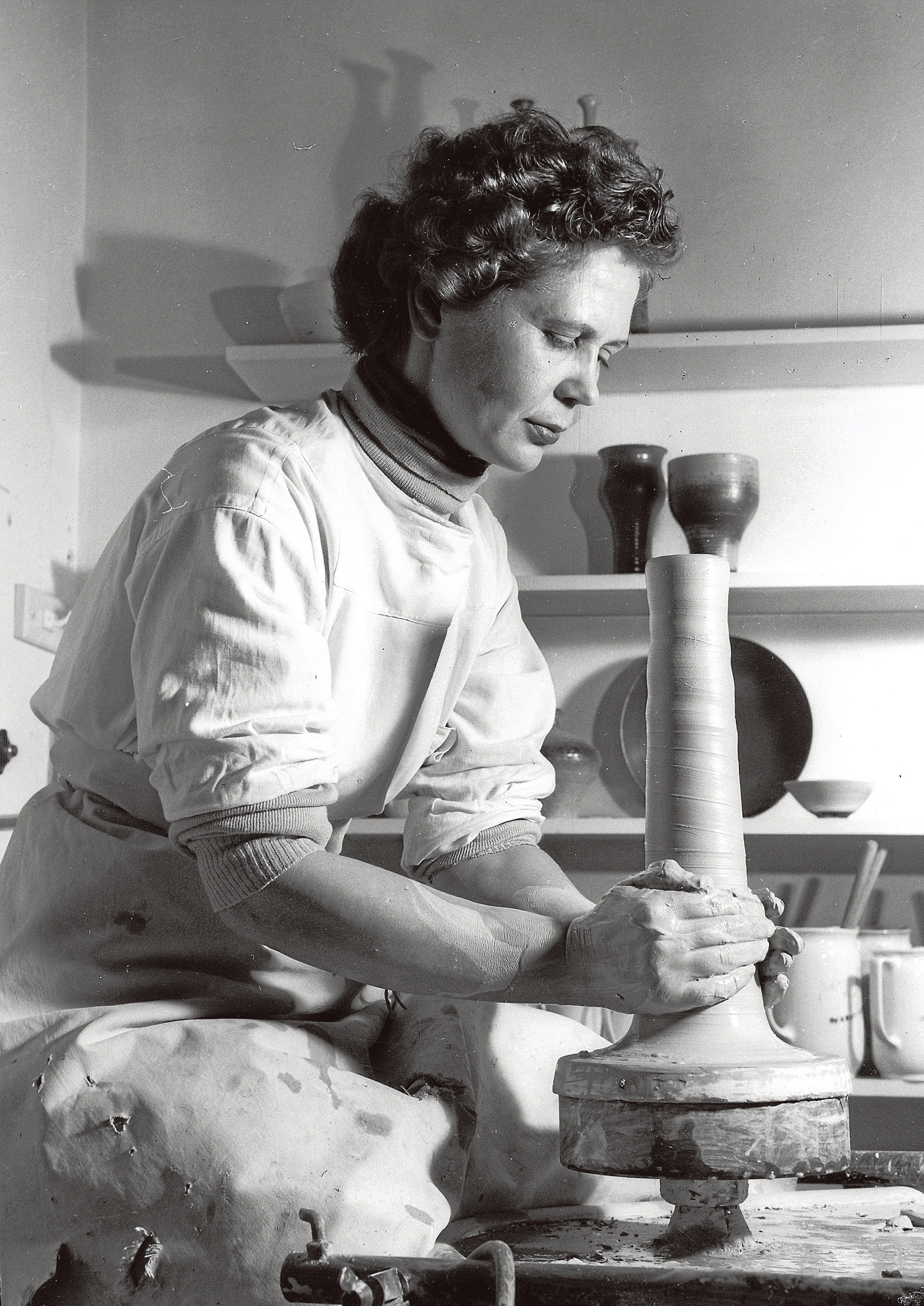 Photograph of the Finnish potter Kyllikki Salmenhaara (1915–1981).